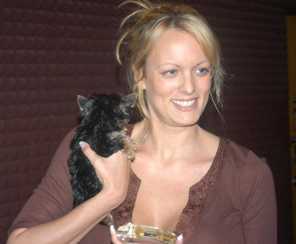 Stormy Daniels at KSEXradio Listener Choice Awards 2005.